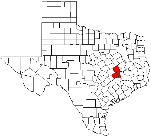 Map of Texas highlighting the Bryan–College Station; created with the GIMP. Made by User:Acntx.